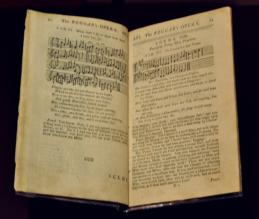 The Beggar's Opera, printed libretto with music, 3rd edition, 1728, puvblished by John Watts, printed at Wild Court, London Victoria and Albert Museum, London